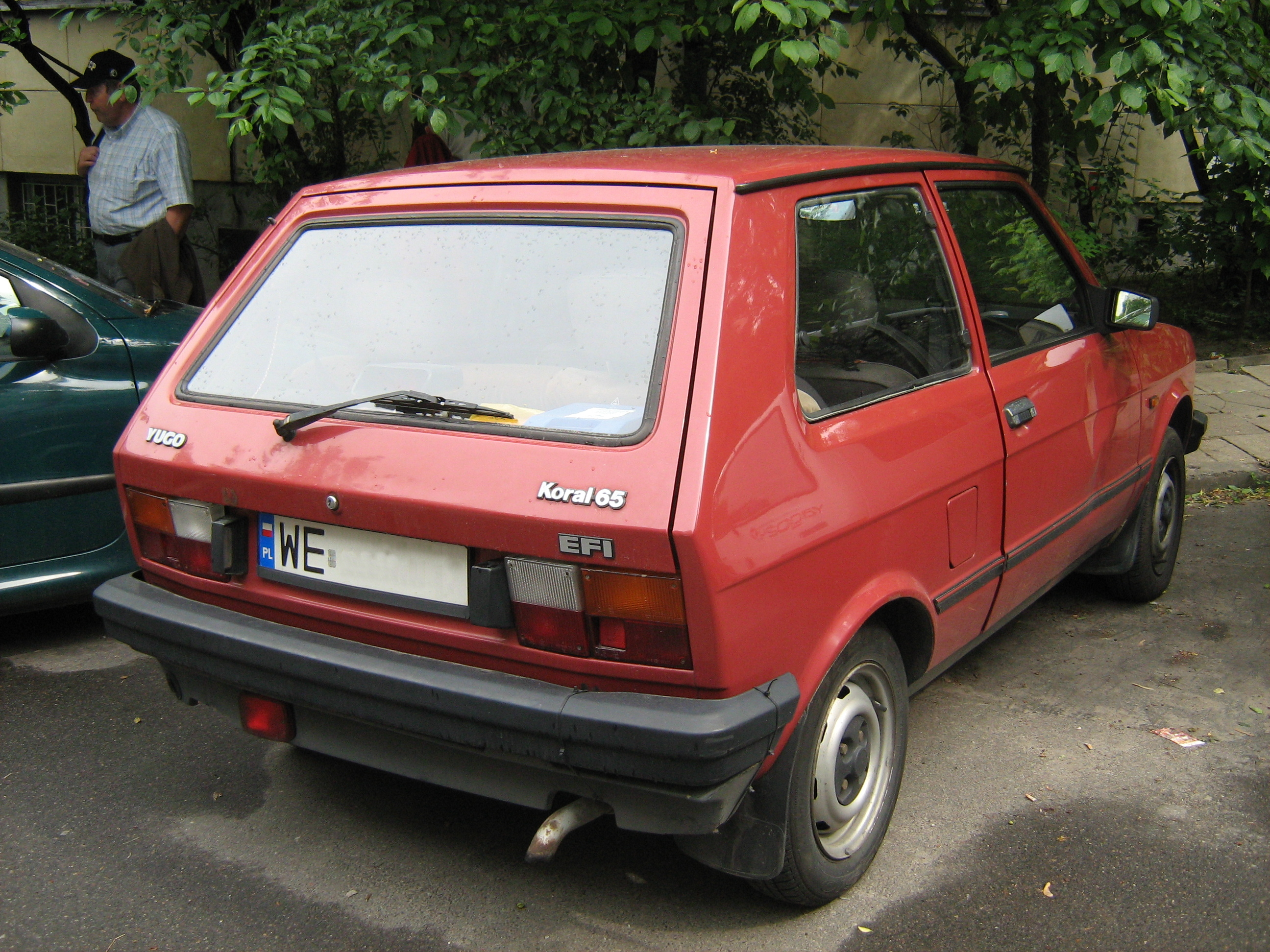 Yugo Koral 65 EFI red hatchback